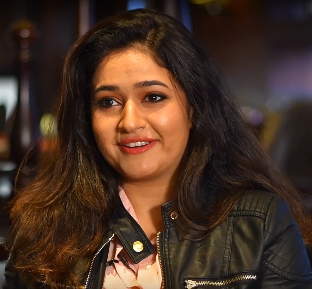 Poonam Bajwa interview October 2019